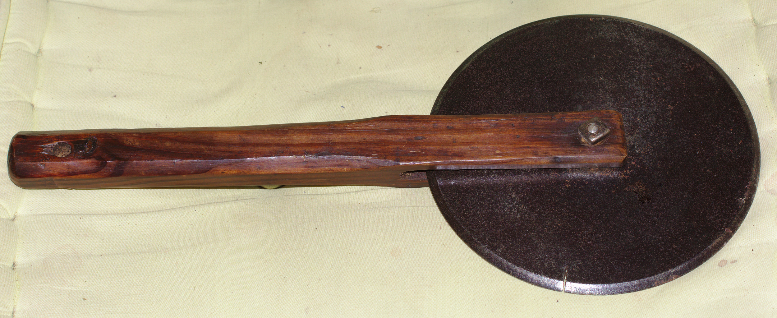 Tool of a French cooper (the grandfather of a friend of mine). It was used to measure the circumference of the wood. Same tool was used by wheelwrights.